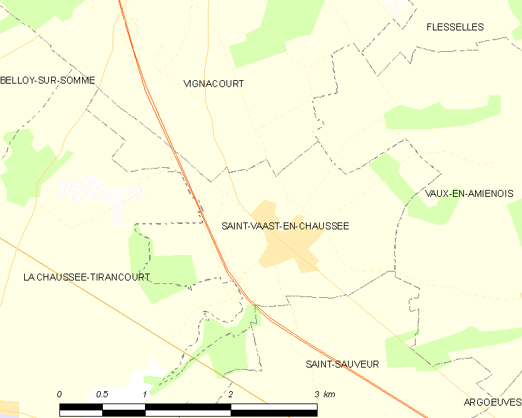 Map of French municipality Saint-Vaast-en-Chaussée